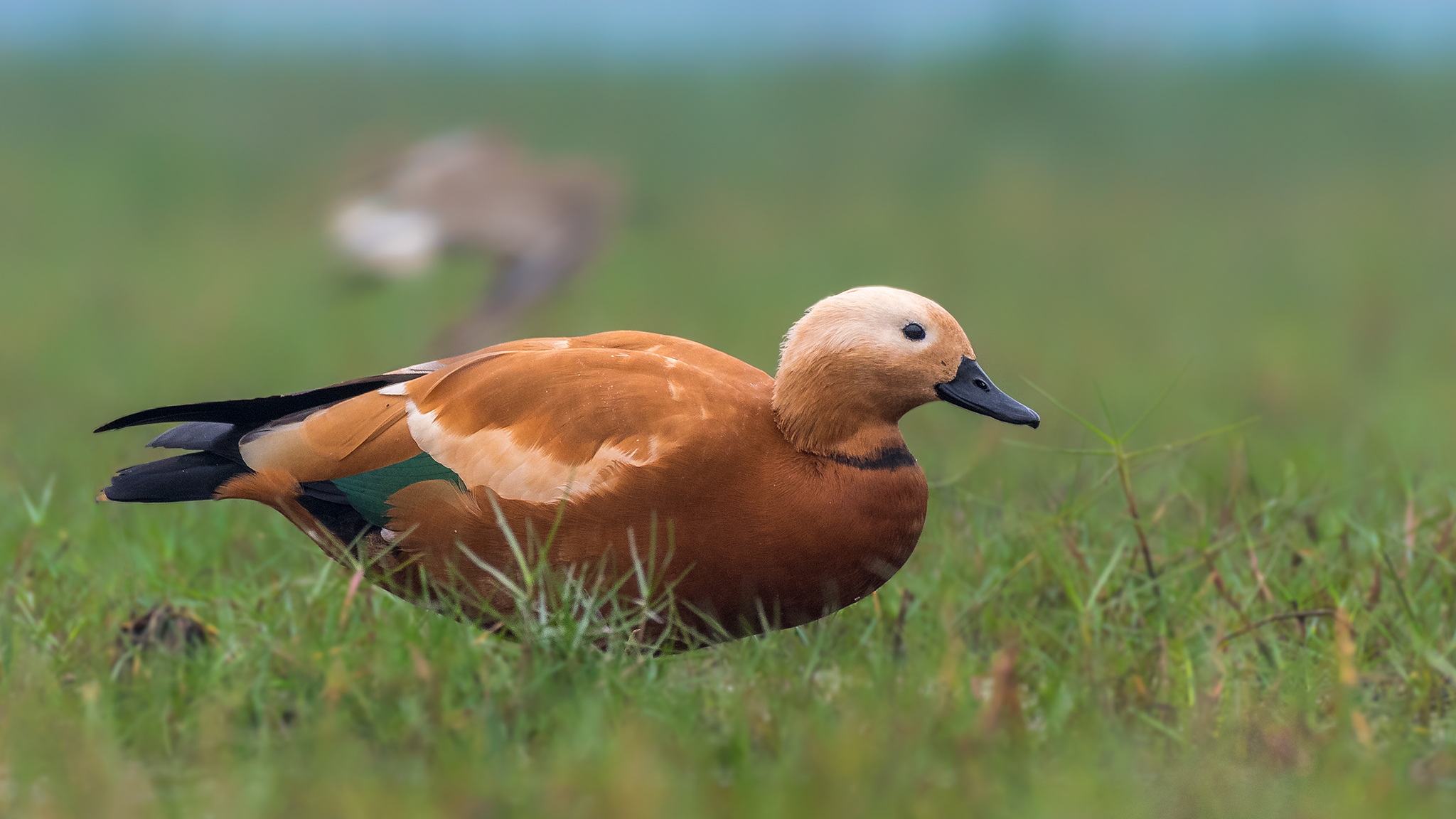 Ruddy Shelduck, Chilika lake, Mangalajodi, Odisha, India; Photographed by Prasanna Kumar Mamidala